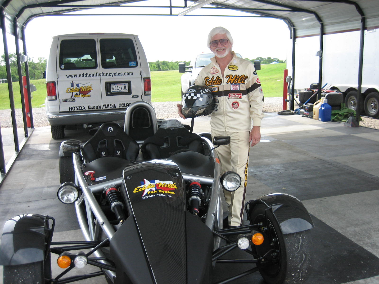 Eddie Hill with his Ariel Atom at Hallett Motor Raceway 2008